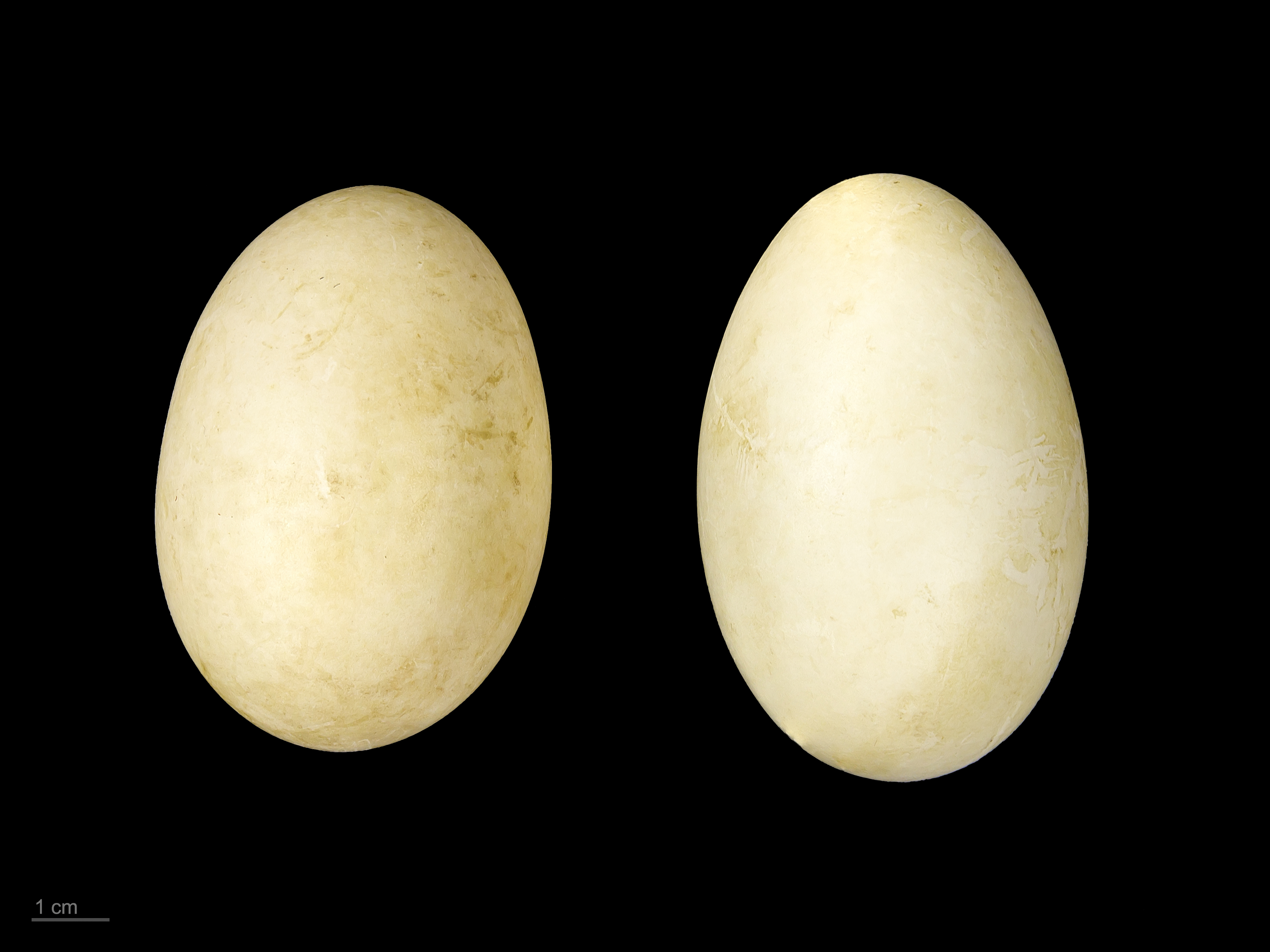 Egg of brent goose Collection of Jacques Perrin de Brichambaut.